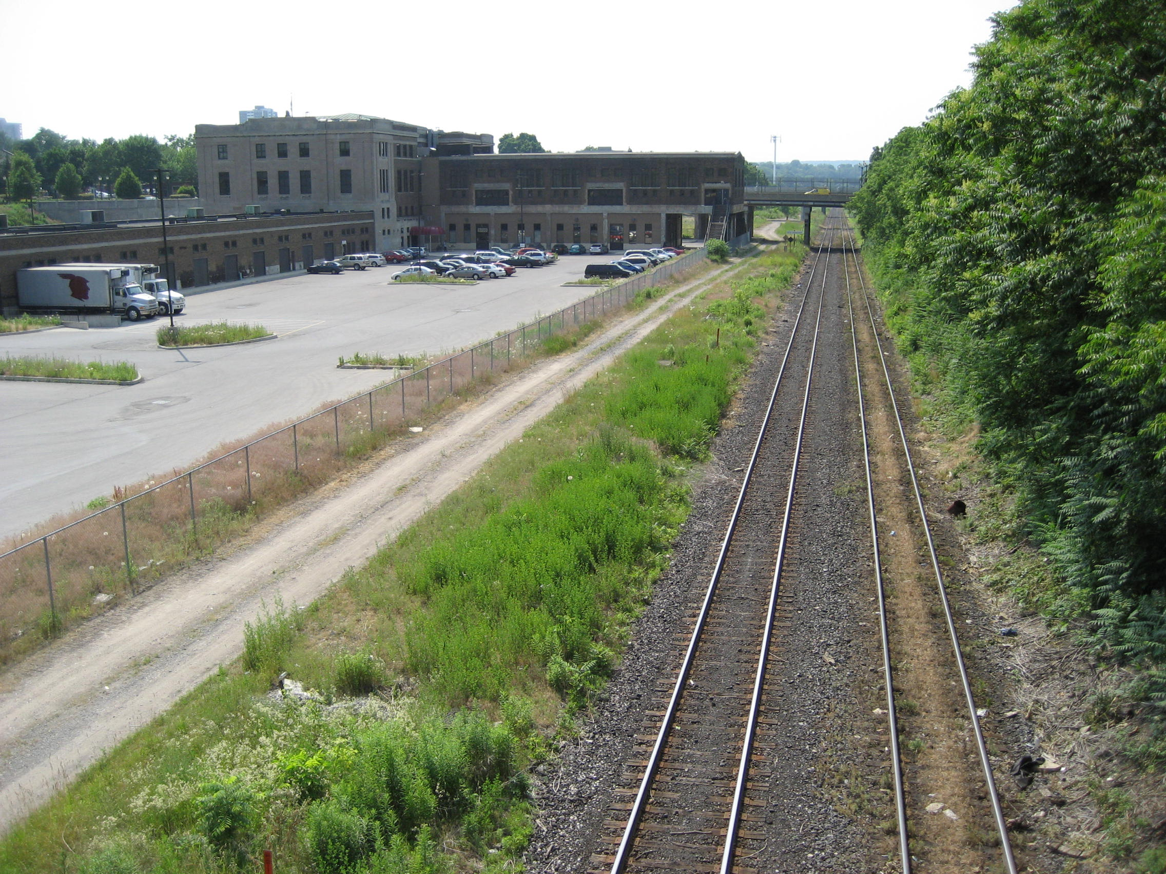 Canadian National Railway tracks, view from bridge on John Street North, LIUNA Station in background, Hamilton, Ontario